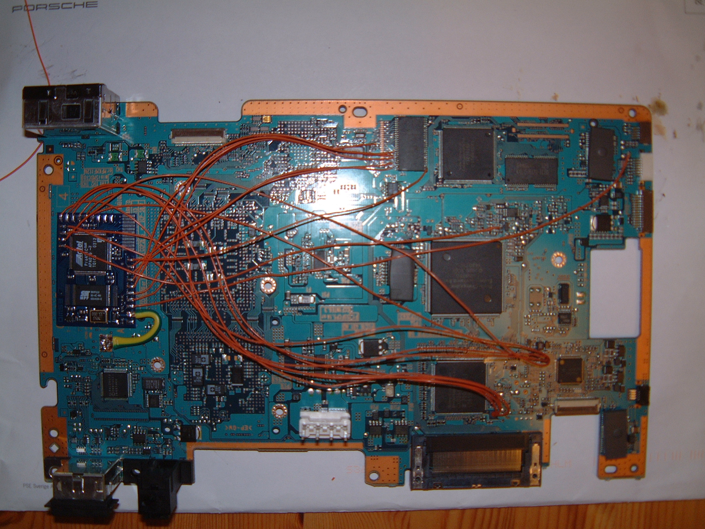 A Playstation 2 motherboard with modchip installed.